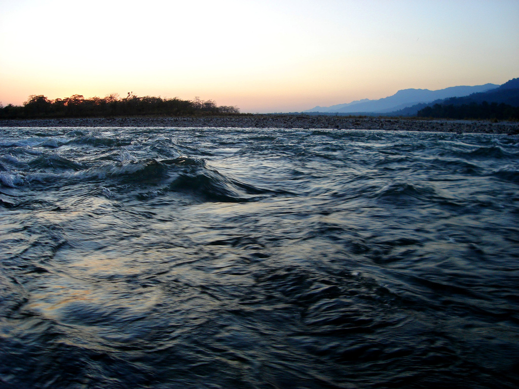 Manas River, Assam/Bhutan border.